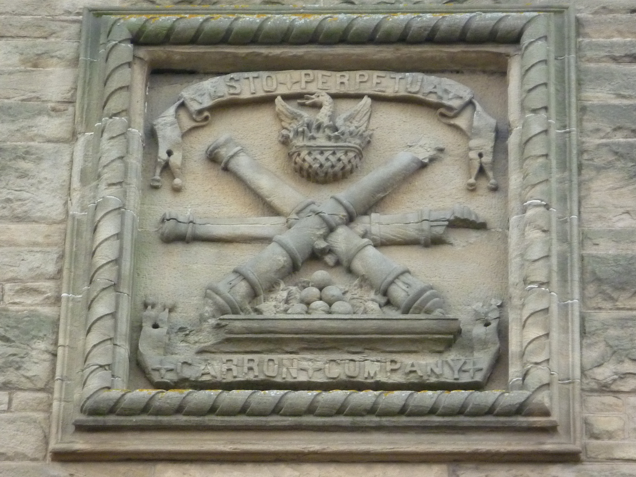 The trademark of the Carron Company above the old entrance to the Carron Ironworks.